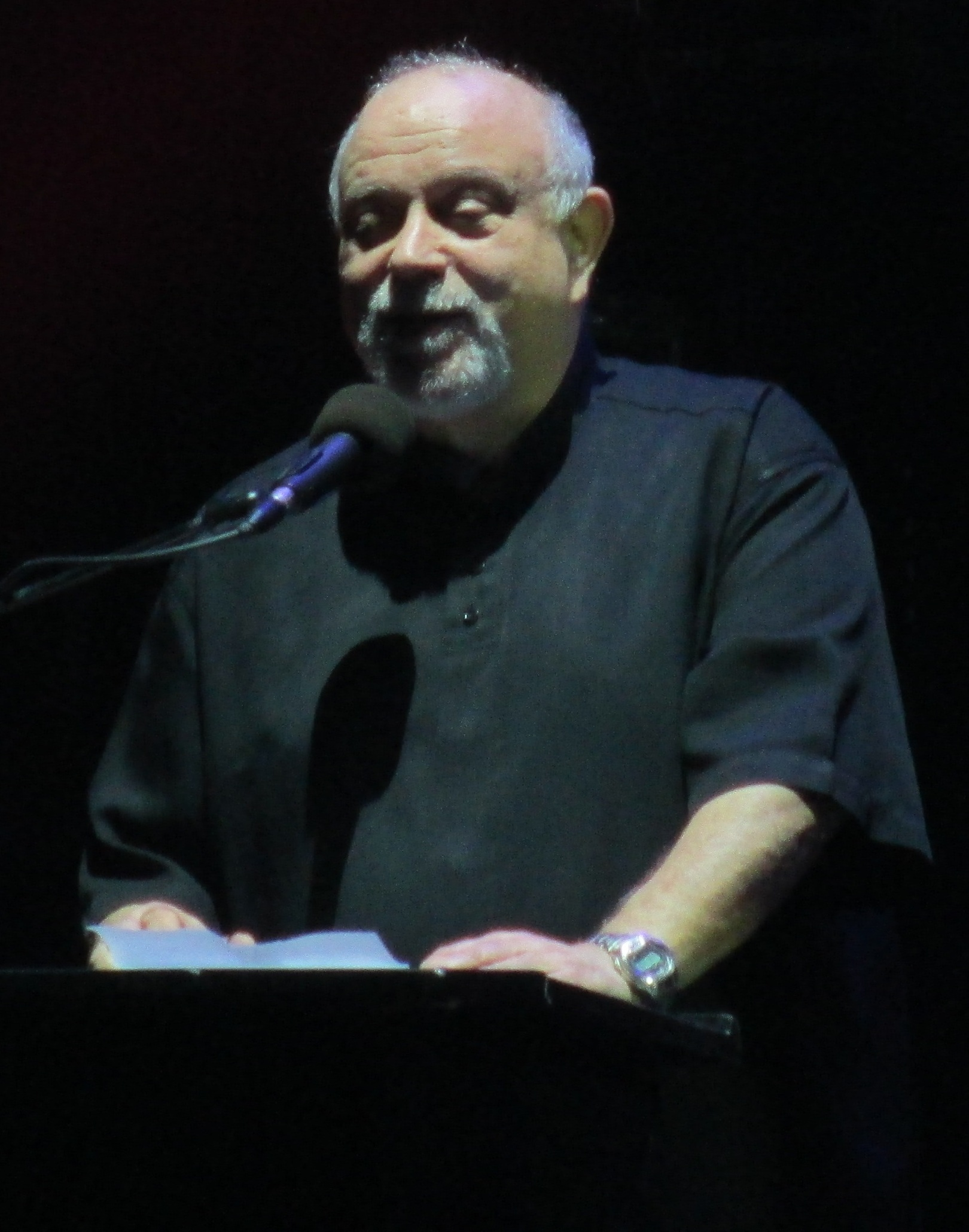 omri nizan, art director of the cameri theater in tel aviv עמרי ניצן, המנהל האמנותי של התיאטרון הקאמרי, בטקס האשכבה של זהרירה חריפאי